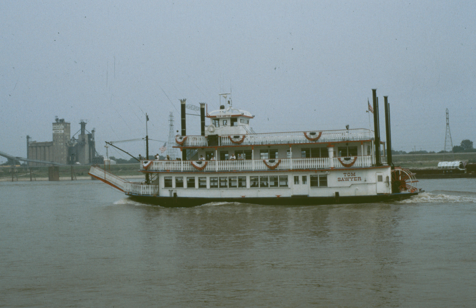 Steamboat "Tom Sawyer" in St. Louis (Missouri)